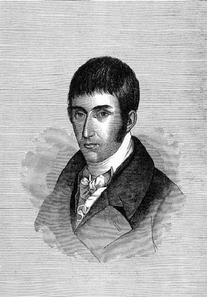 Woodcut of Francisco José de Caldas, Colombian botanist, naturalist and geographer. Taken from Papel Periodico Ilustrado.